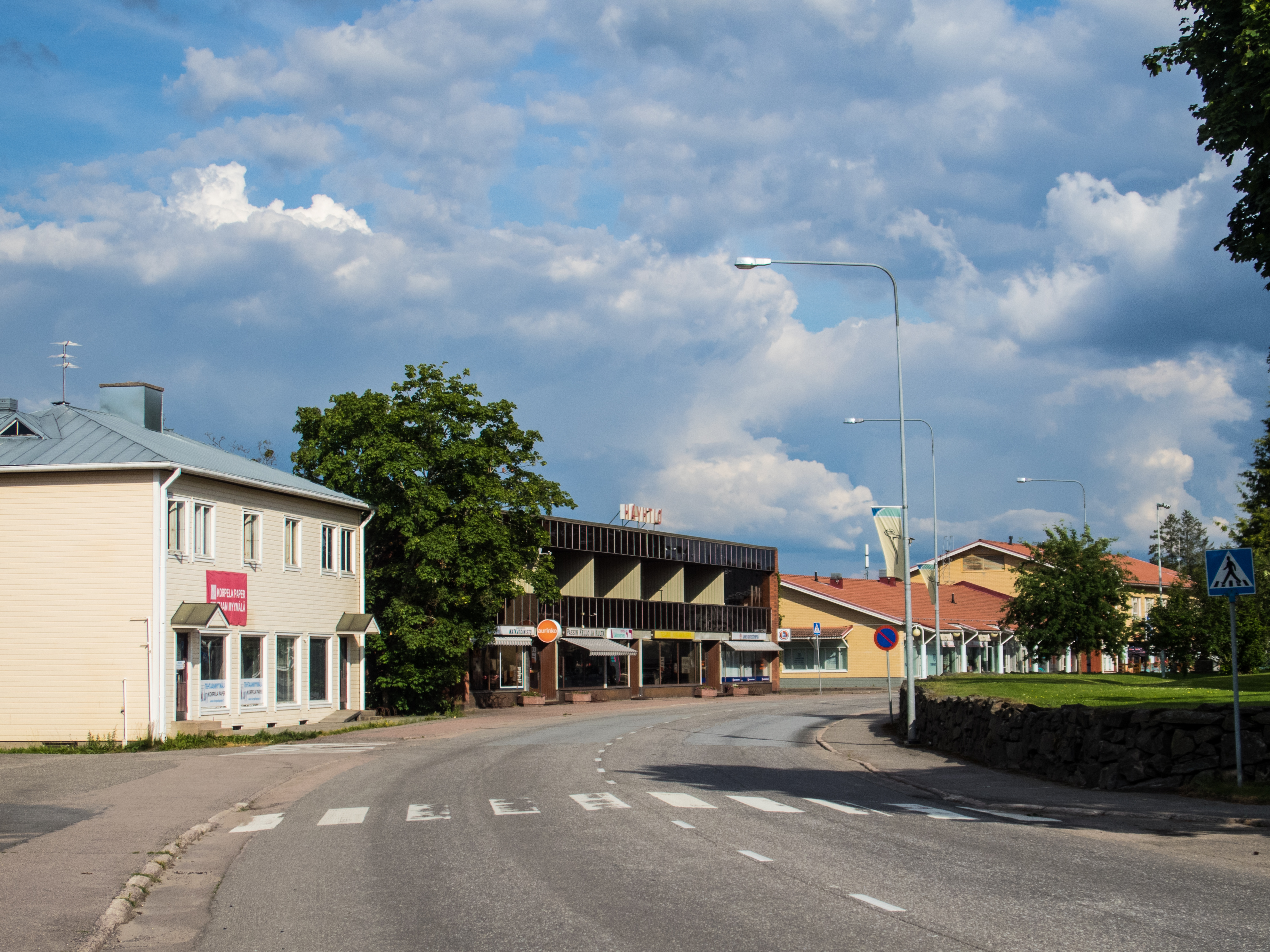 Tulkkilantie street in Tulkkila, the centre of Kokemäki, Finland. July 2014. The street runs around Kokemäki Church not seen in the picture.